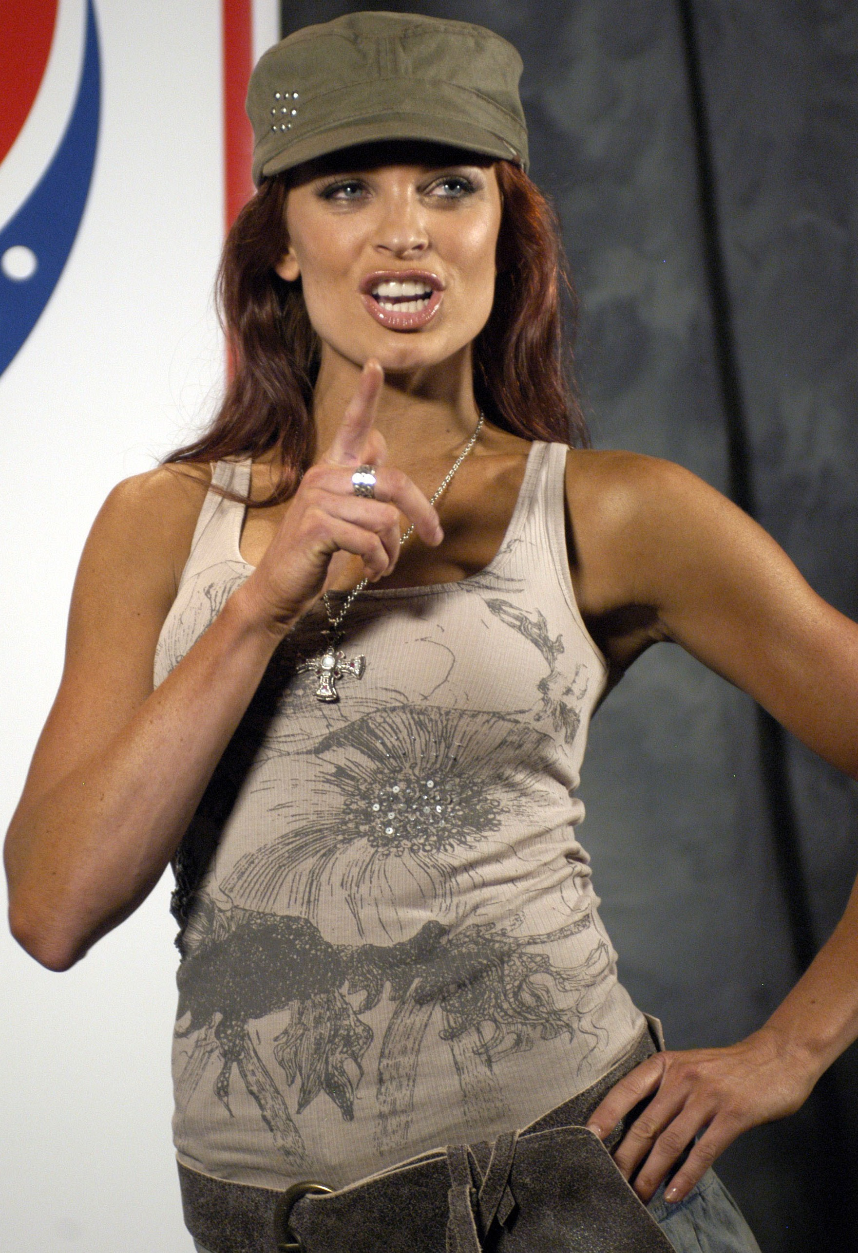 World Wrestling Entertainment diva Christy Hemme records a message to the troops before the start of SummerSlam at the MCI Center in Washington Aug. 21. Patients from Walter Reed Army Medical Center were in the crowd cheering their favorite wrestling personalities and booing the bad guys. Hemme was one of several WWE personalities to record a message for the troops.